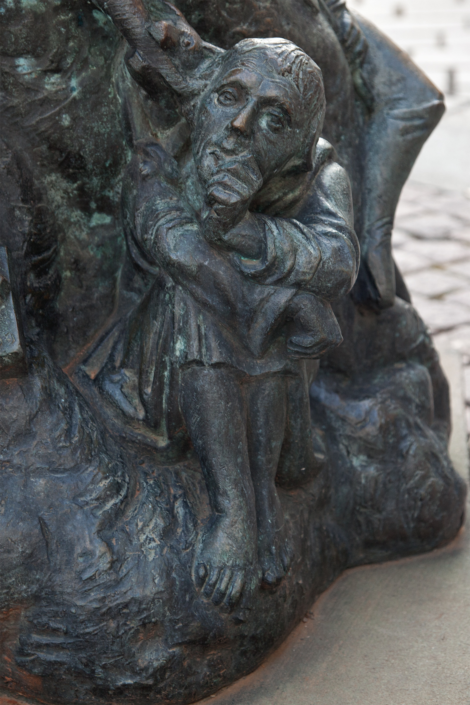 Freiberg, detail of a fountain (Fortuna-Brunnen) showing Dietrich von Freiberg